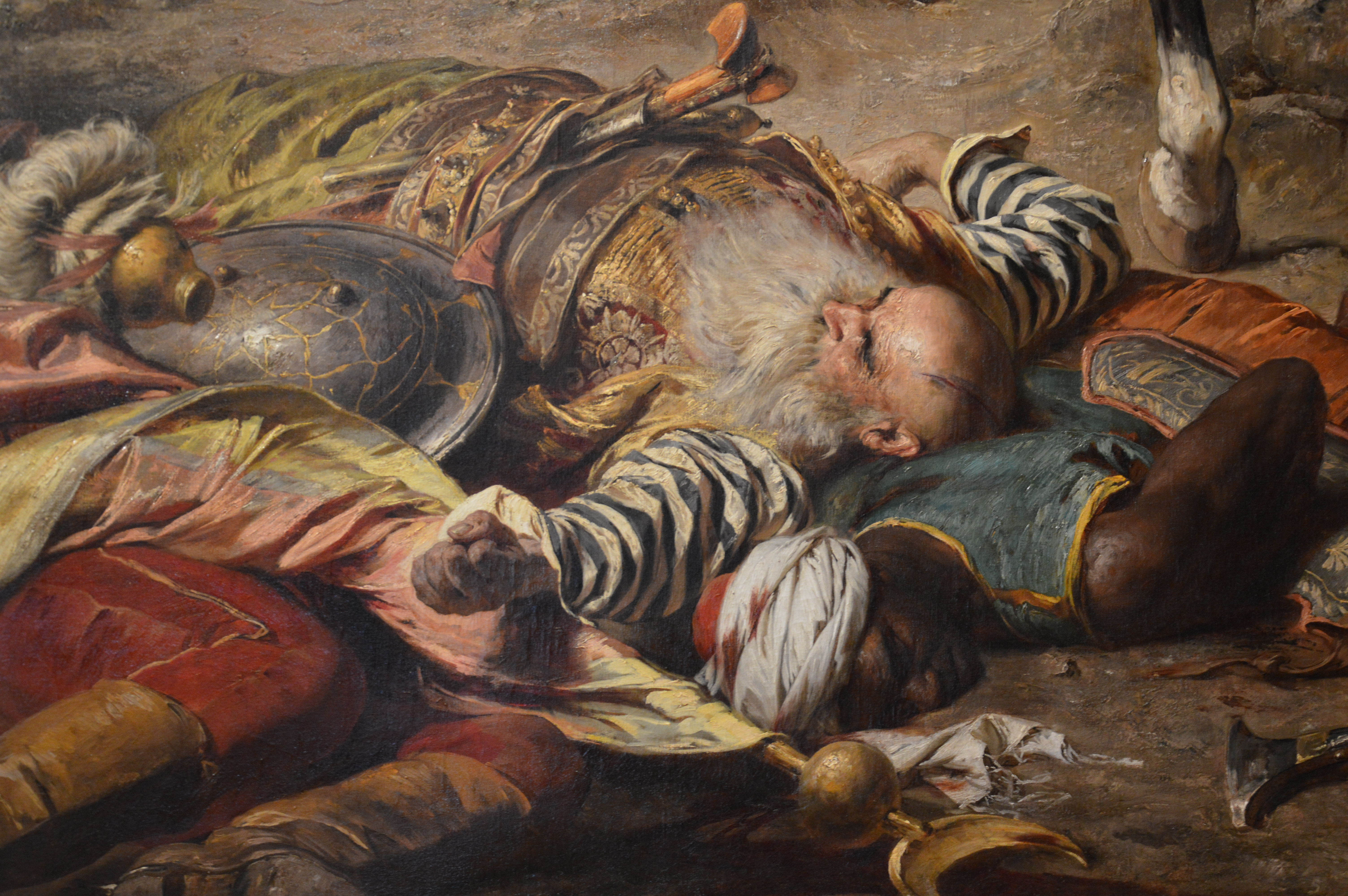 Abdi Pasha the Albanian in a detail of Recapture of Buda Castle by Gyula Benczúr